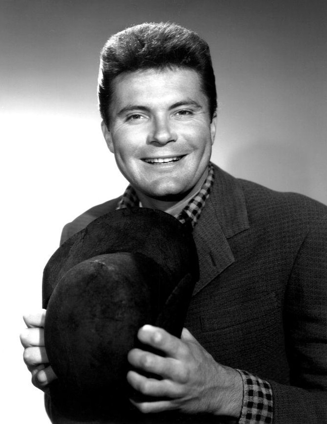 Photo of Max Baer, Jr. as Jethro from the premiere of the television program The Beverly Hillbillies.